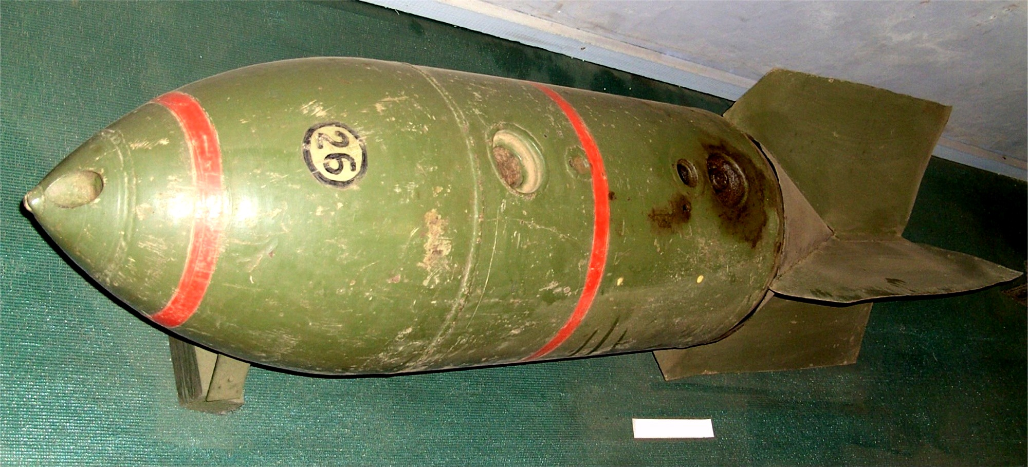 German aircraft bomb 250kg of the type NC 250